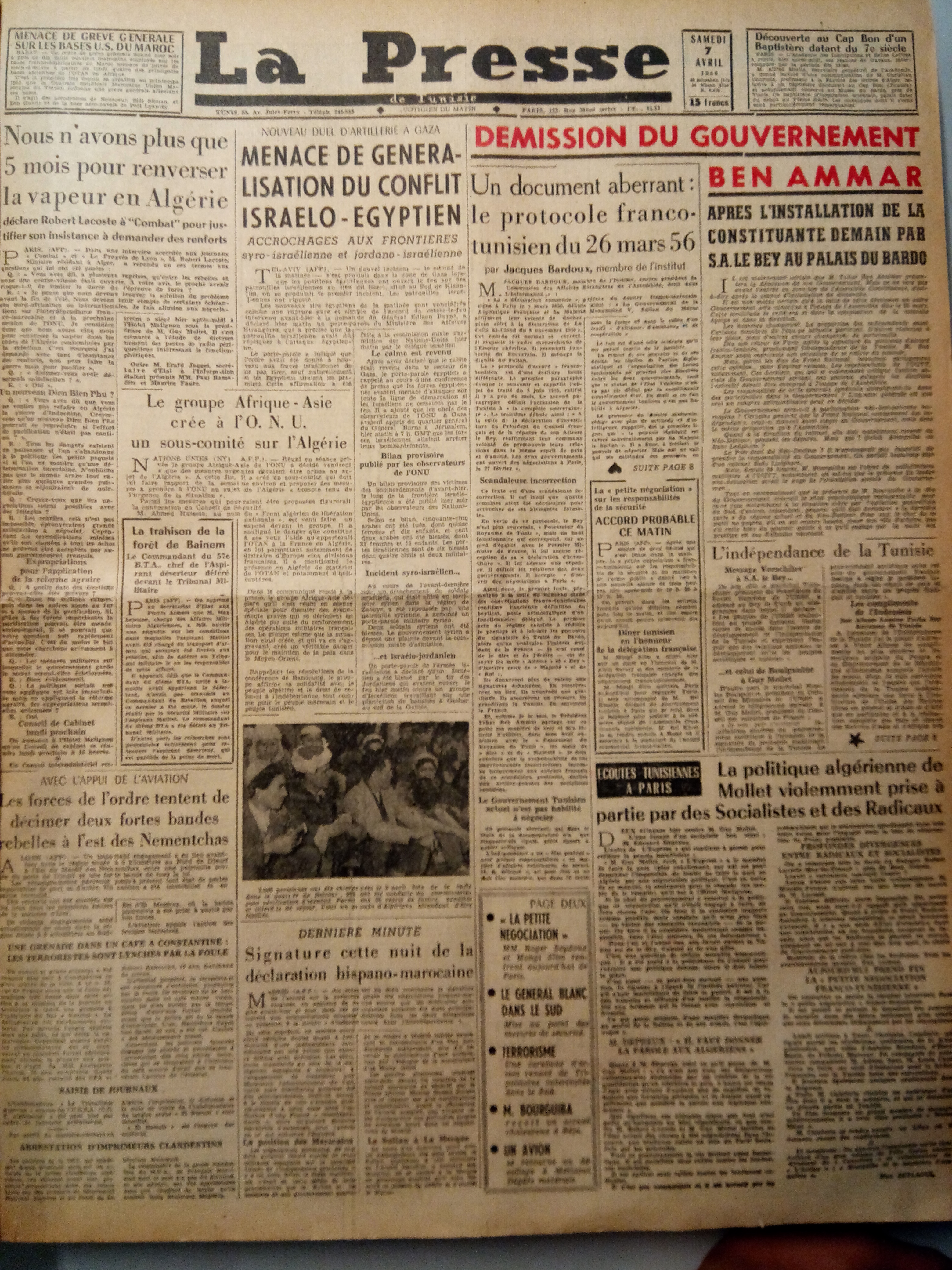 La presse Tunisie 1956 0111